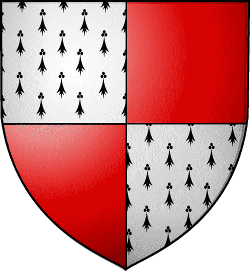 Coat of arms of Stanhope, Earl of Chesterfield Blazon: Quarterly Ermine and Gules.